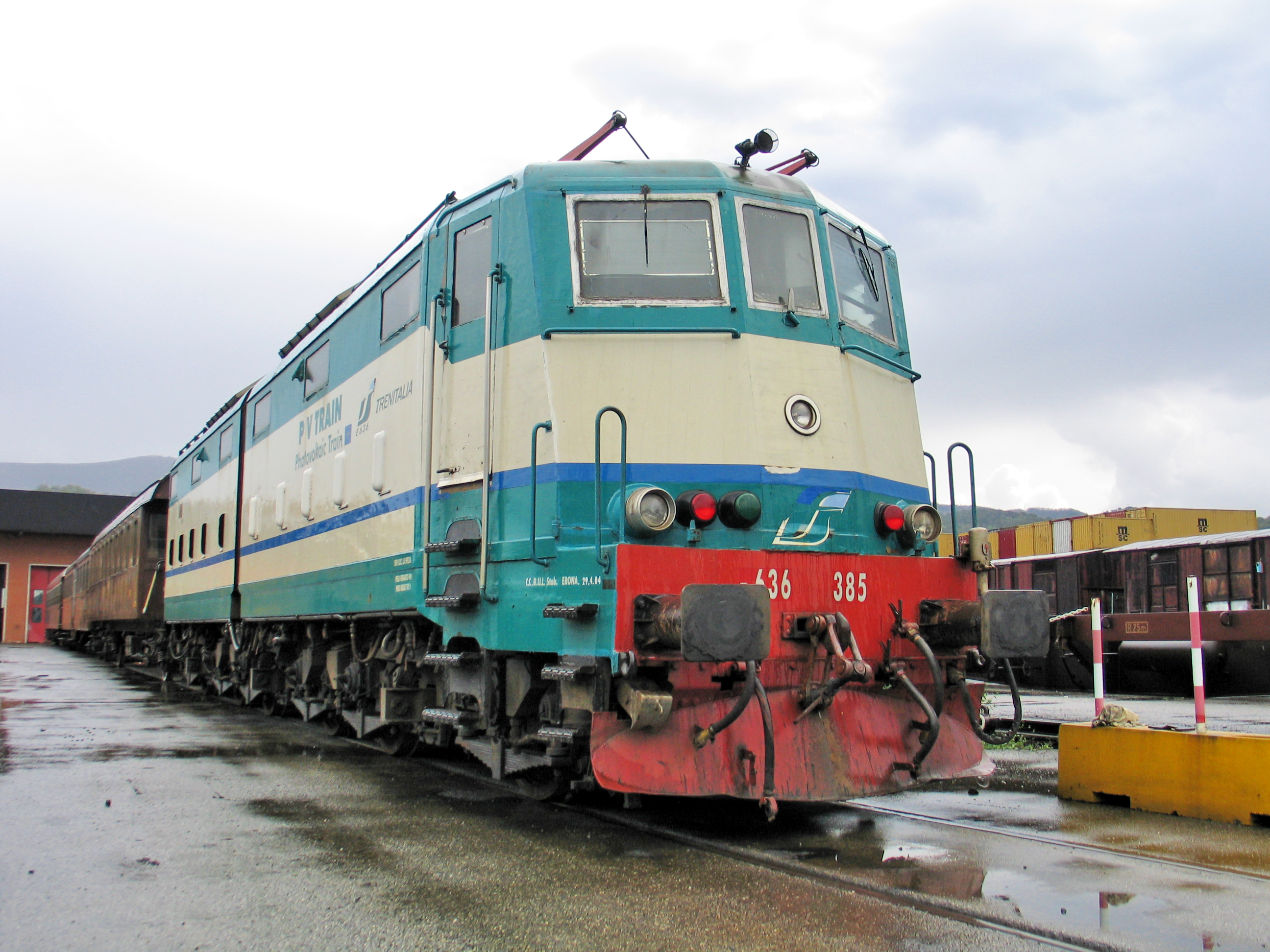 FS E636.385 PVTrain